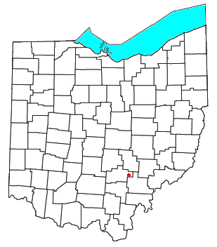 Locator map of the unincorporated community of Carbon Hill in Hocking County, Ohio, United States.